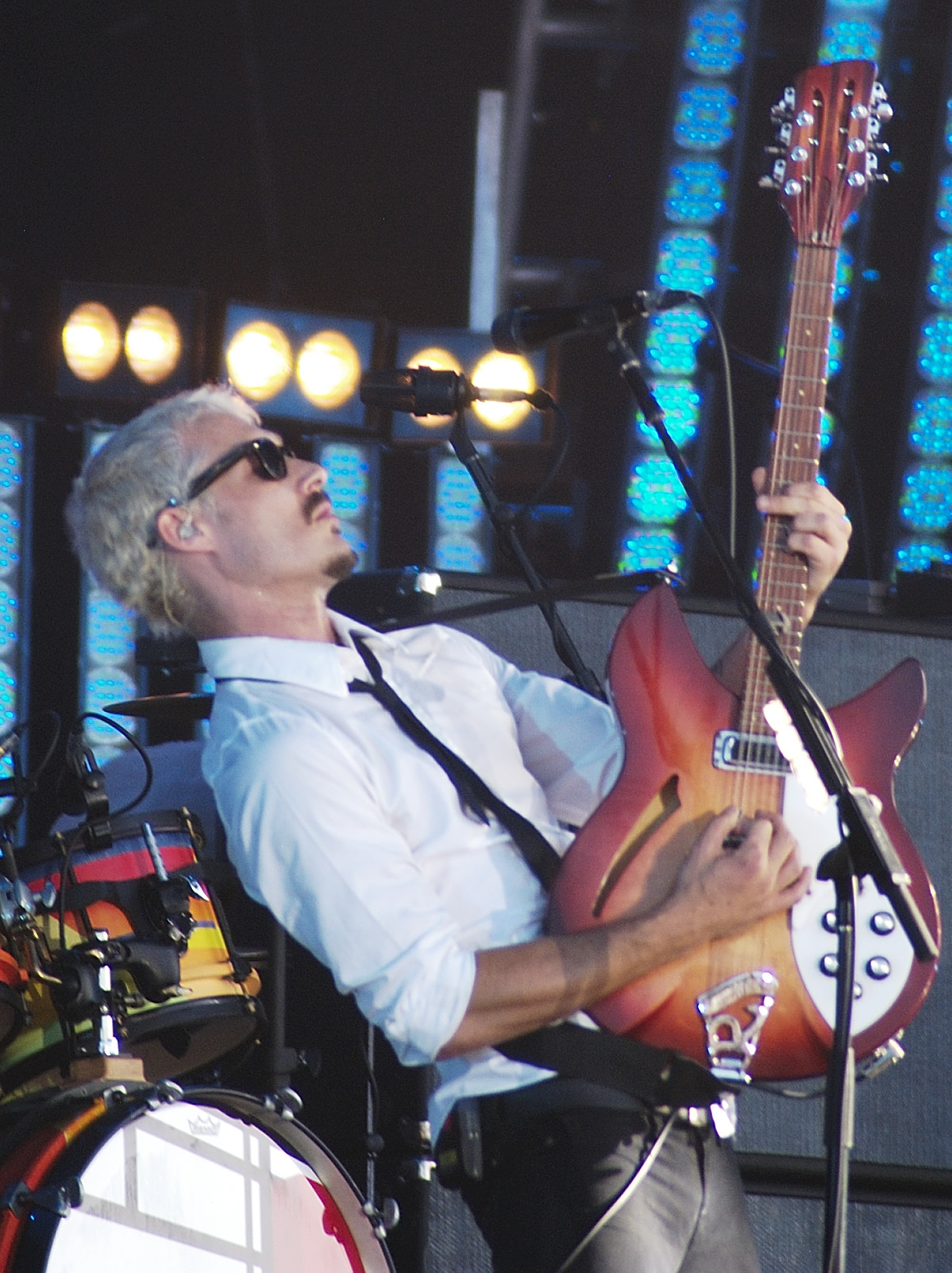 Silverchair at Big Day Out 2008, Melbourne Flemington Racecourse.